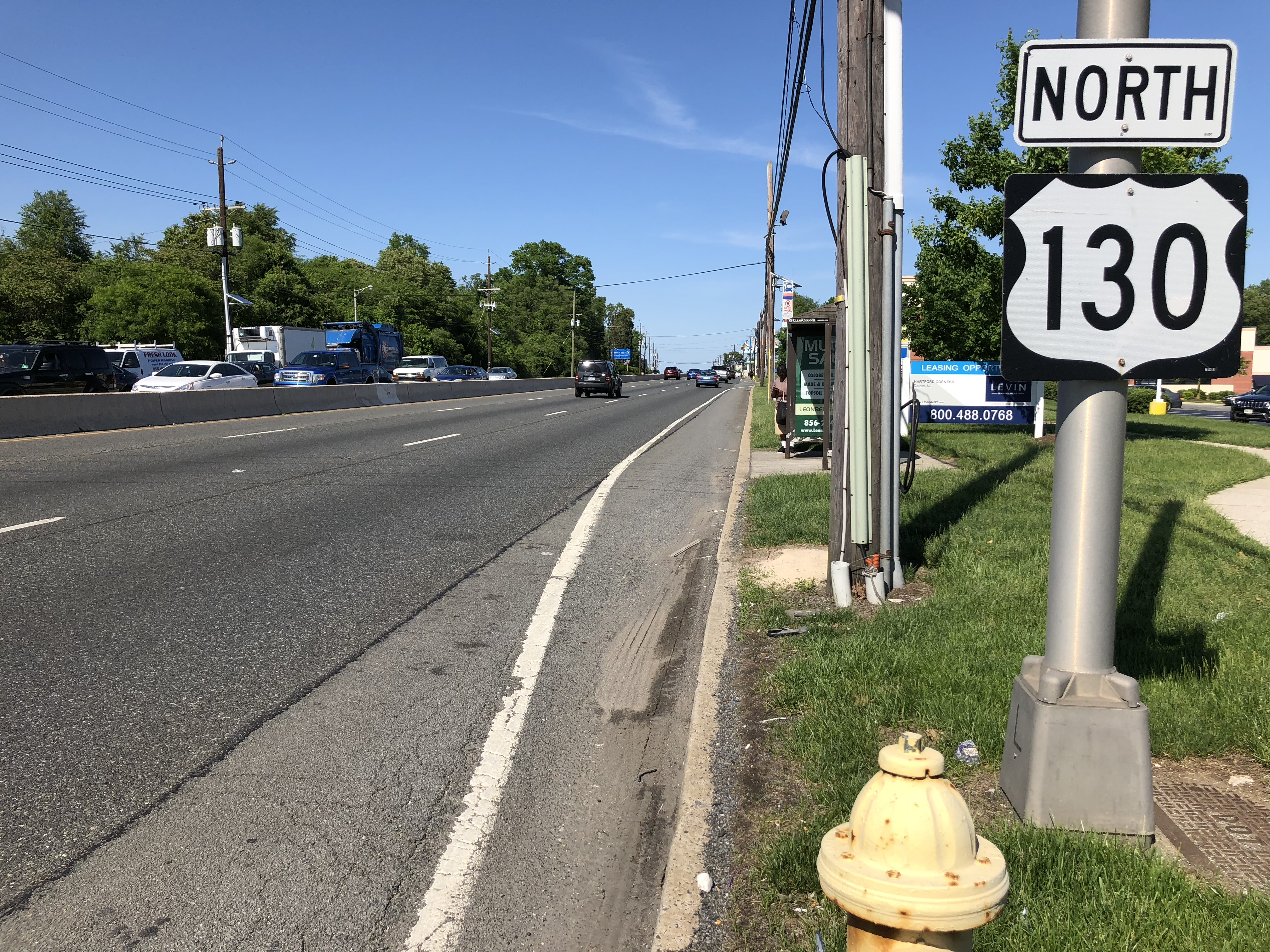 View north along U.S. Route 130 (Burlington Pike) at Burlington County Route 605 (Fairview Street) in Delran Township, Burlington County, New Jersey